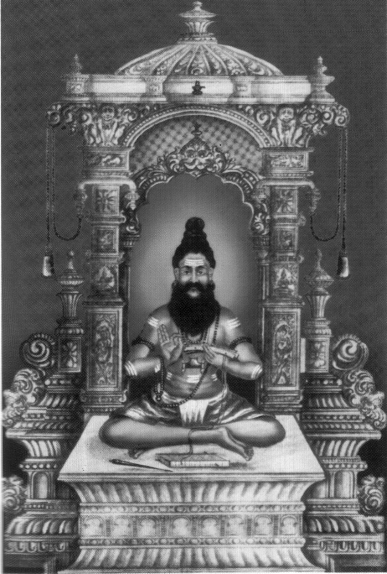 Sivaprakasa swamigal photo